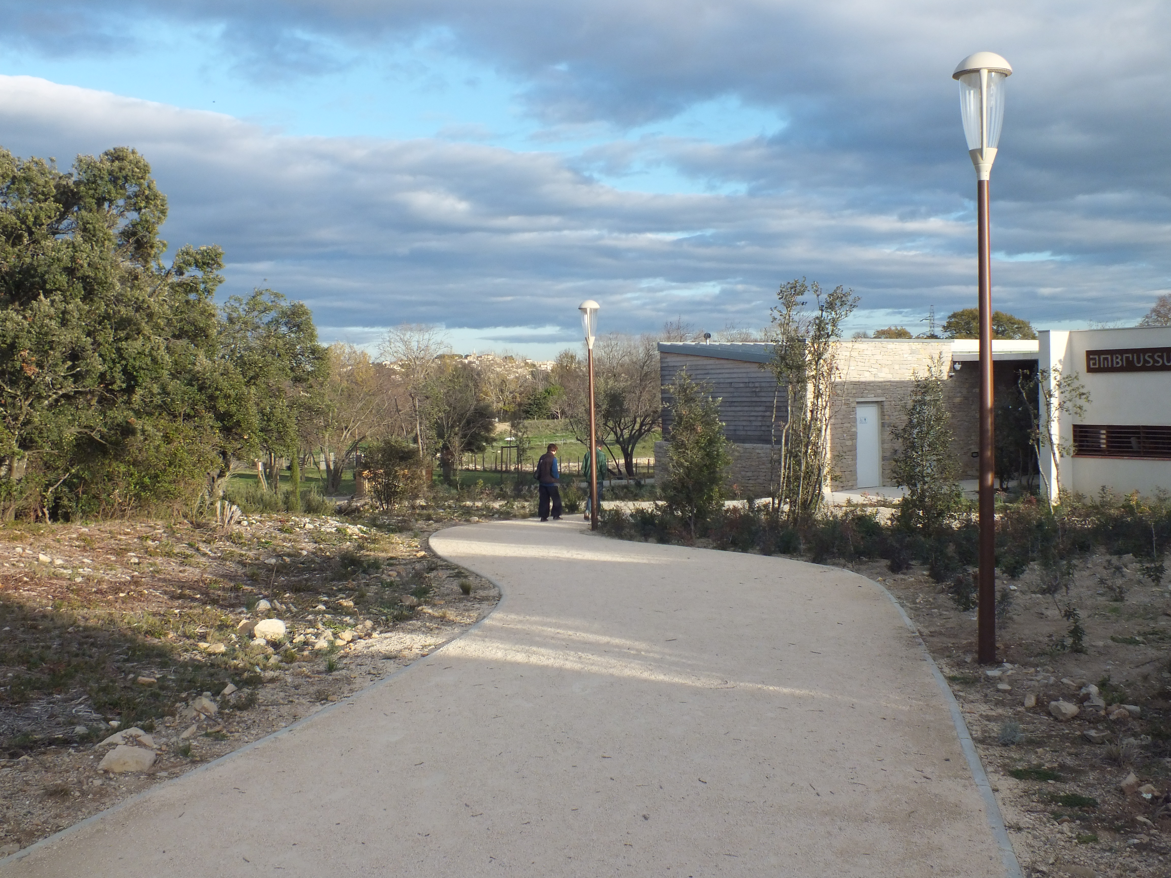 Ambrussum is a Roman archaeological site in Villetelle, near Lunel, Hérault, the Via Domitia which led over the Pont Ambroix, ran at the foot of the settlement. Visitors'Centre constructed in 2011